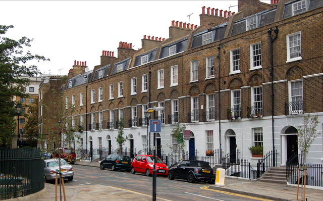 Claremont square, Islington (3) Looking northeast at the east side of Claremont Square, Islington. The square was developed in the 1820s around the Upper Pond of the New River Company. The New River is a man-made water channel which carried drinking water for 20 miles to London from the River Lee and Amwell Springs in Hertfordshire. It opened in 1613 and fed reservoirs in Islington. One of these, known as the Upper Pond, was built in 1709 beside Pentonville Road. The reservoir in Claremont Square was covered and turfed in 1852 when open areas of standing water in London were prohibited by law. The reservoir is still in use by Thames Water. The semi-improved grassland on the top and sides of the reservoir supports a wide diversity of wild flowers and is a preserved habitat with restricted access. See also [1] and [2] .